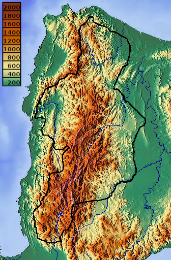 Relief map of northwestern Luzon showing the borders of the Cordillera Administrative Region highlighted in black.